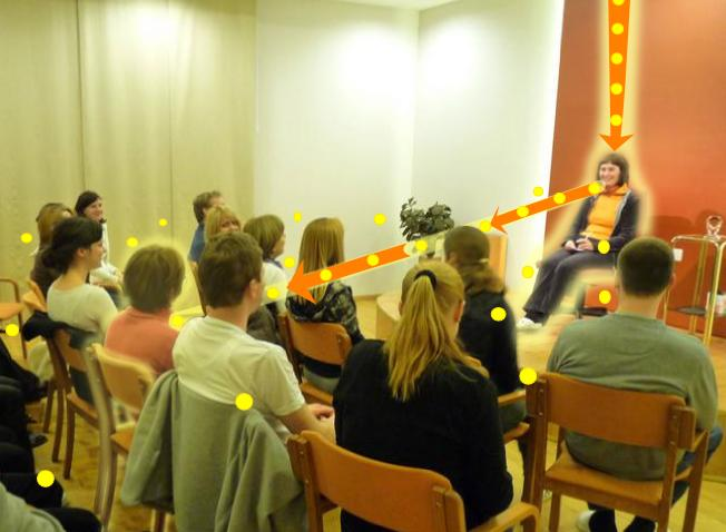 Message transmition in Life Technology. Shen Qi chanel with instructor and message transmition from instructor to participant. Messages are shown with yellow ball simbols. Based on descriptions in Zgonik, Lea (2009). Fenomenizem. Predavanja v SPIRALI, centru za kvaliteto življenja. Celje.